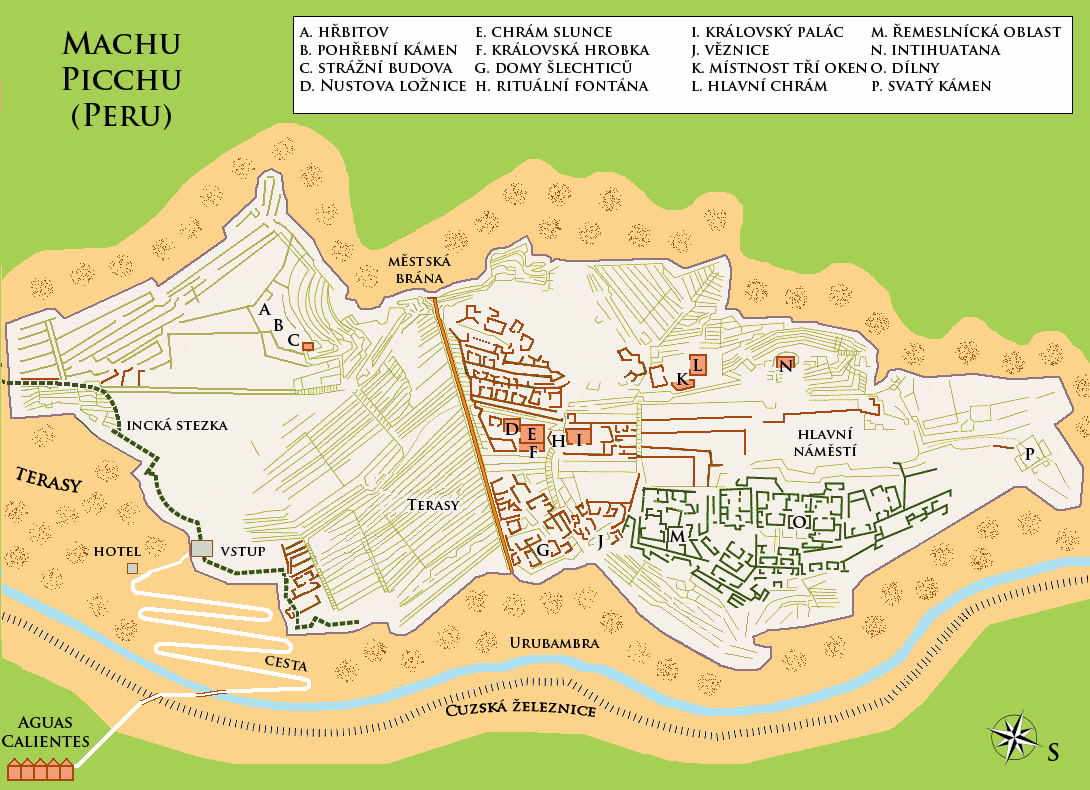 Map (rough) of Machu Picch in Czech language